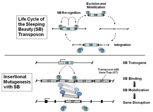 A graphic explaination of the Sleeping Beauty transposon technology used to create knockout rat models